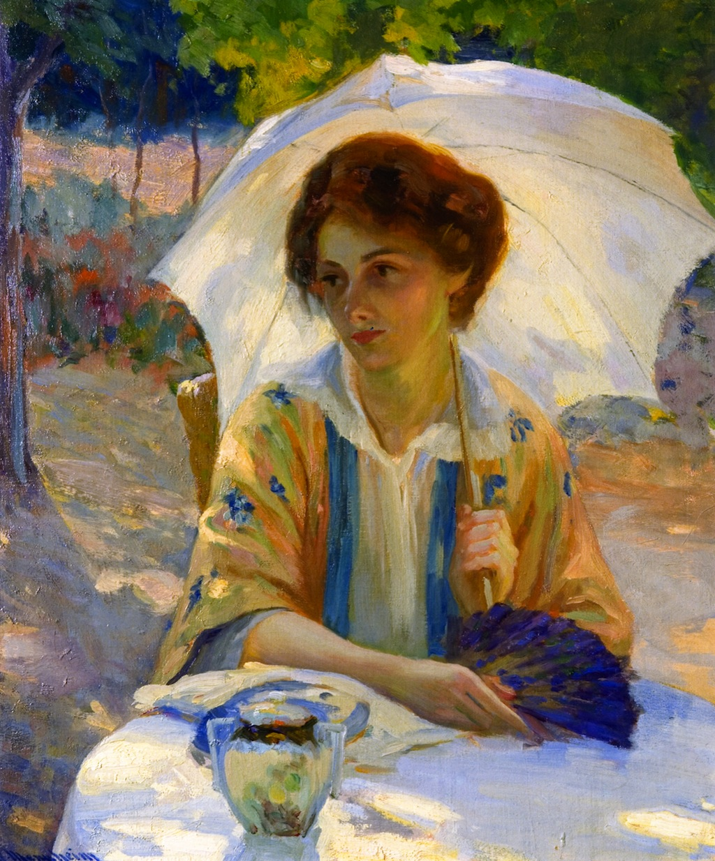 Sunny Portrait